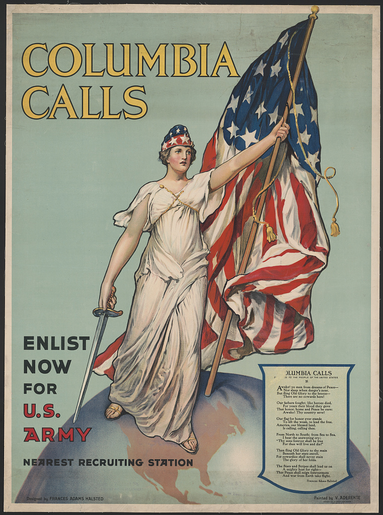 World War I recruitment poster that shows Columbia holding a flag and a sword while standing on North America on top of a globe.